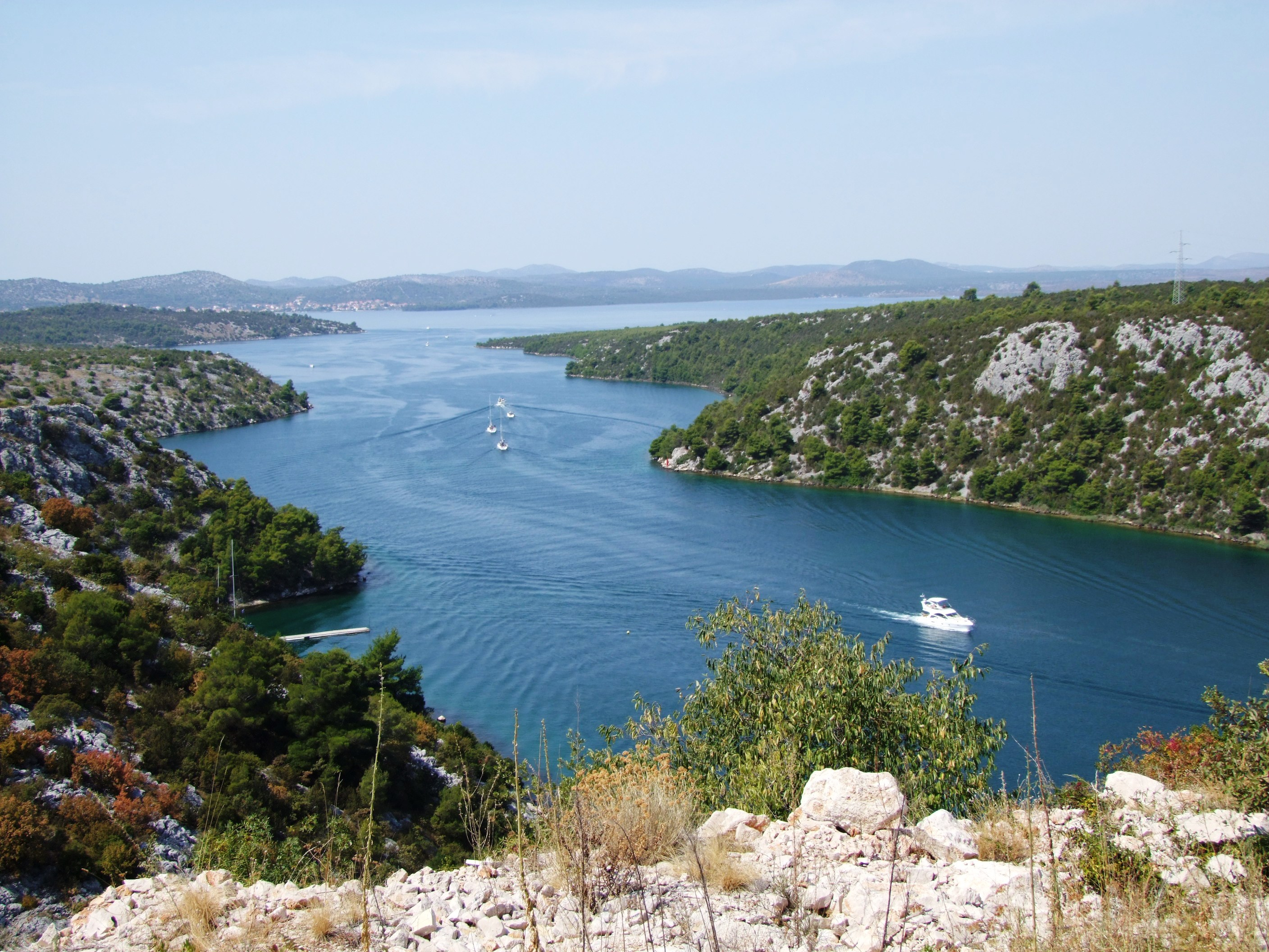 Mouth of Krka